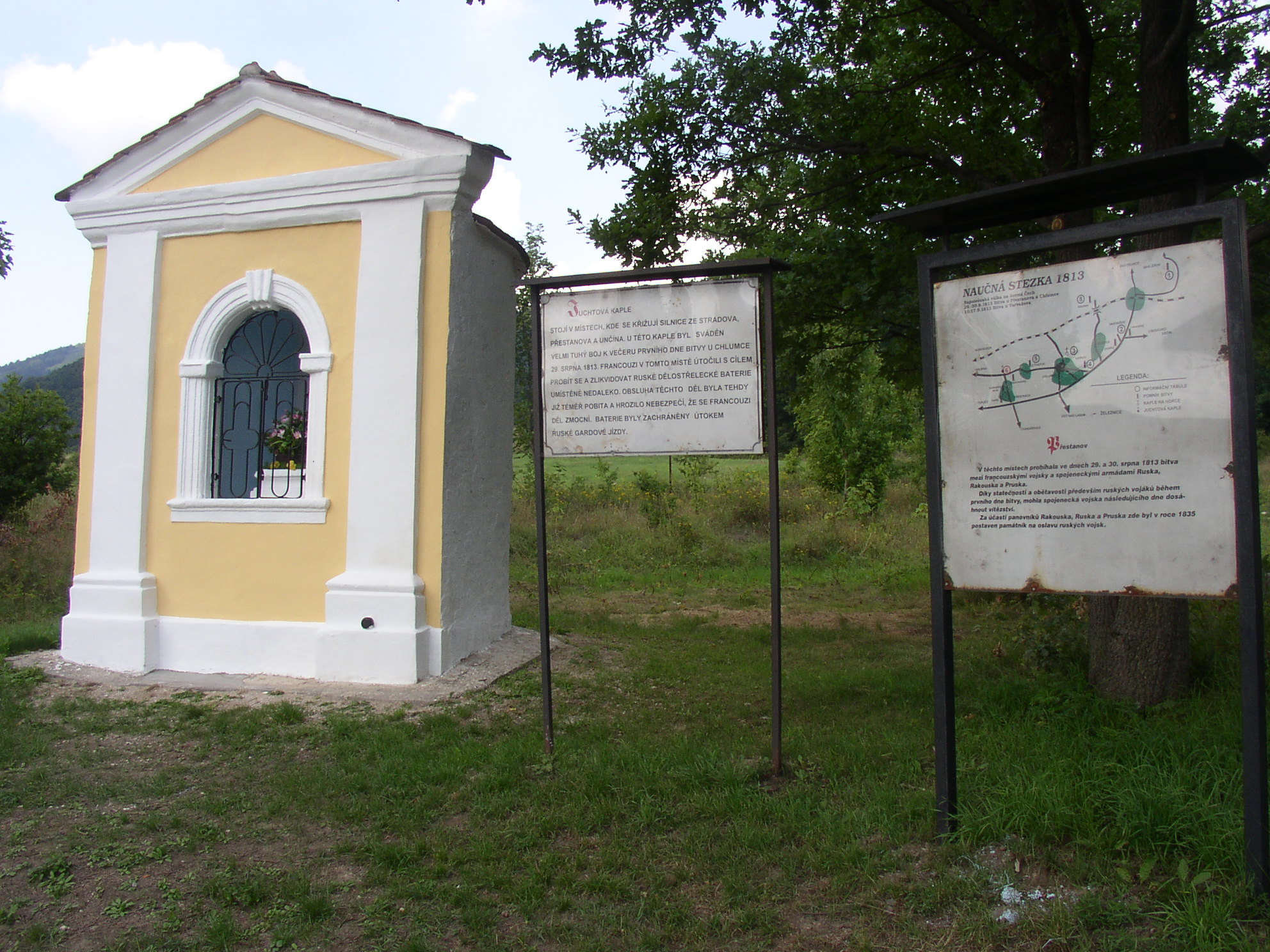 Přestanov, Ústí nad Labem District, Czech Republic. So called Yuft chapel, a site of heavy fighting during the Battle of Kulm on 29th August 1813. The French nearly succeeded to capture Russian artillery located here but Russian cavalry came and threw them back.